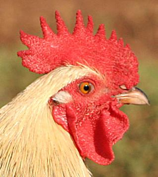 Detail crop of Image:Rooster02.jpg